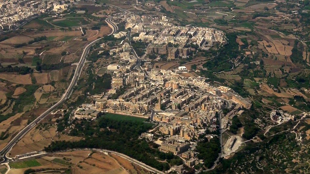 Bird's eye view of Mtarfa, Malta